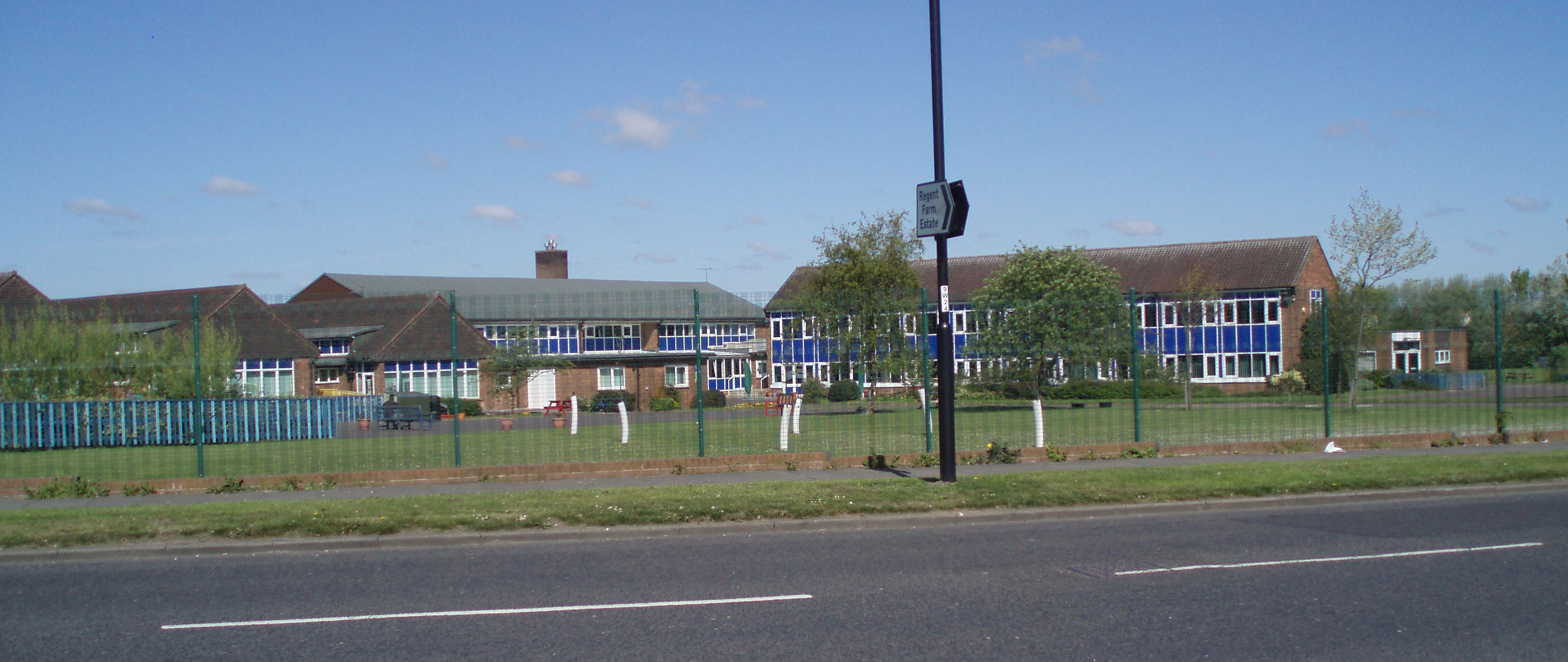 This is a photograph of Regent Farm First School. Gosforth, Newcastle Upon Tyne, England